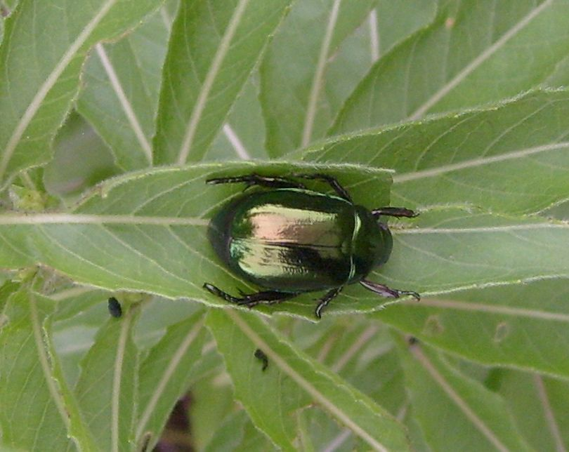 Anomala mongolica resting on a leaf on a rainy day. Taken in the hills above Sungjin-ri, Samnangjin-eup, Miryang-si, Gyeongsangnam-do, Republic of Korea.